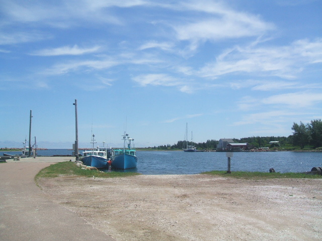 Dingwall, Nova Scotia in 2010